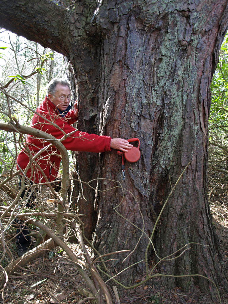 Record Scots pine Gillies Hill, Cambusbarron, Scotland